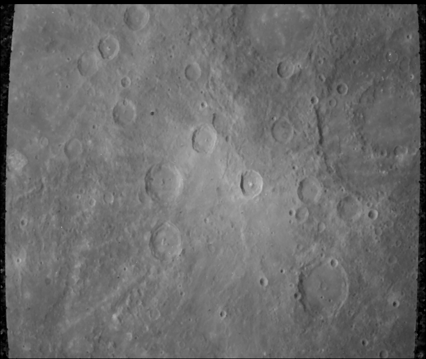 Image Number: 0166651GMT: 1974:264:19:52:52Start Time: 1974-09-21T19:52:52.444ZLatitude: -42.25° to -24.92°Longitude: 58.41° to 77.4°Resolution (meters per pixel): 565Incidence Angle: 45.07°Emission Angle: 22.59°Phase Angle: 67.54°